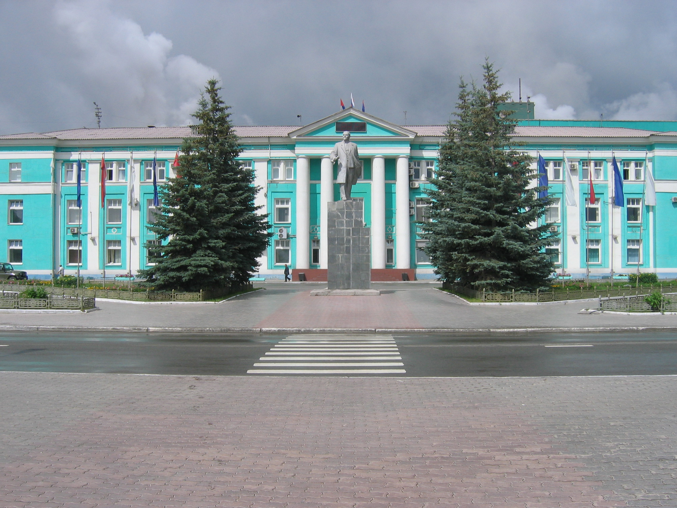 Bogoslovsky Aluminium Plant. Zavodoupravlenie